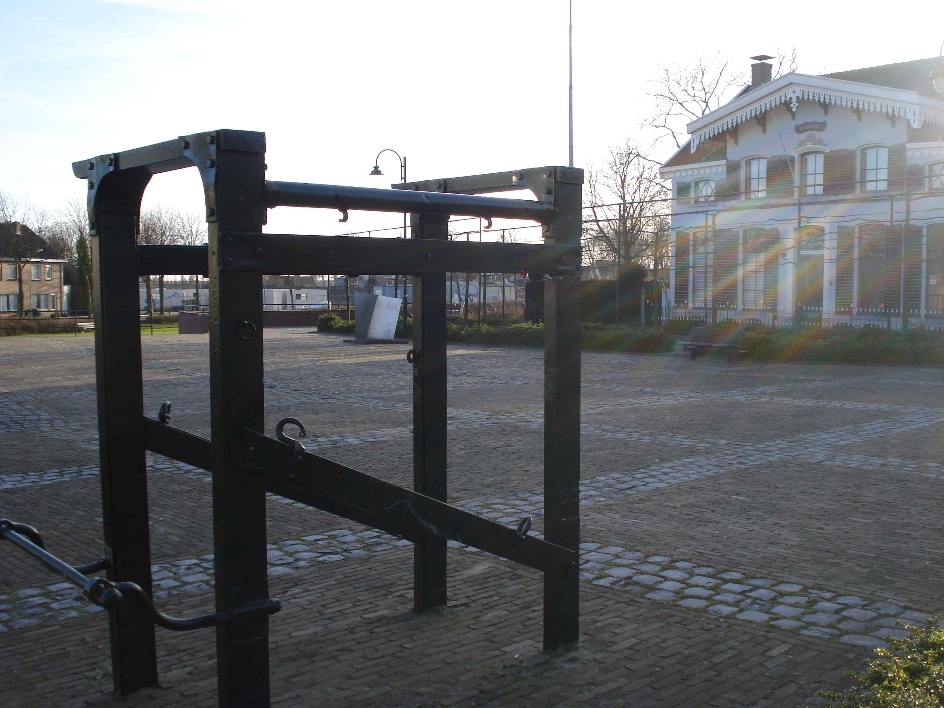 Biezelinge (Zeeland NL) Market place (ancient harbour) with horsework